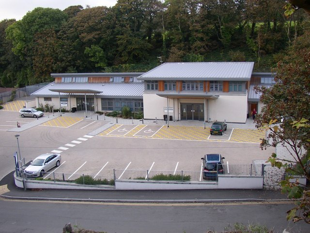 Tenby Hospital Newly built next to the doctor's surgery on the road up to the car park. Seen here from the road on top of the North Cliff.